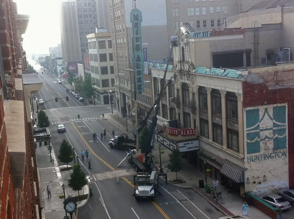 The sign being reattached to the front of the Keith Albee Theater on May 23, 2012.